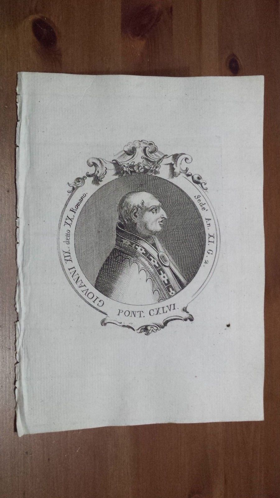 Picture of pope John XIX from year 1775